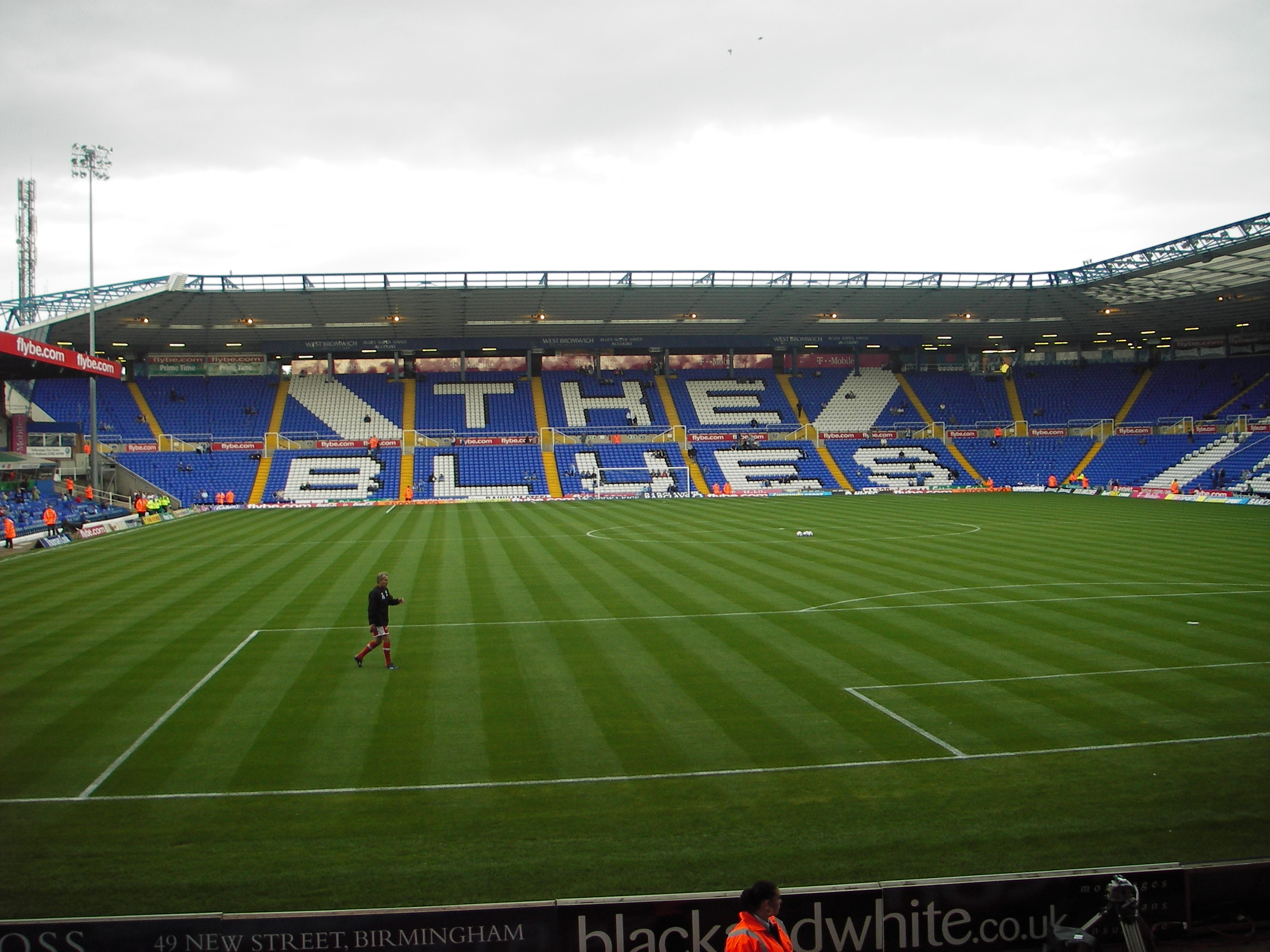 St Andrews, the home ground of Birmingham City.